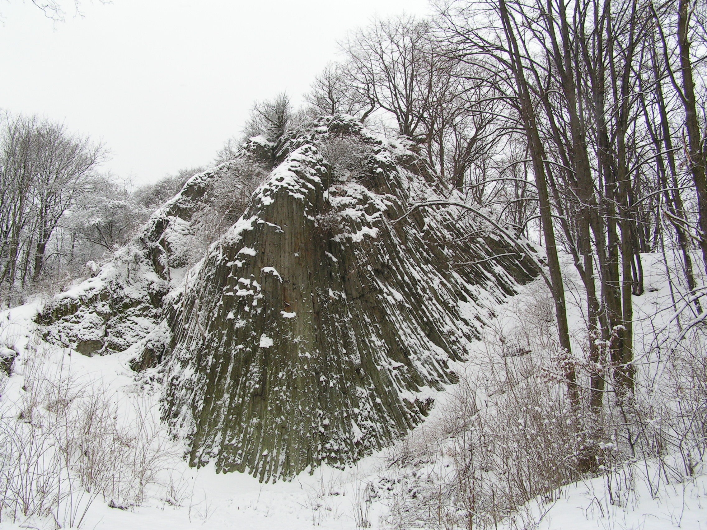 Małe Organy Myśliborskie (Poland) - a formation of the columnar rhyollite, formed from cooling lava in volcanic neck. Picture taken by Magdalena Skrabut, February 2006.